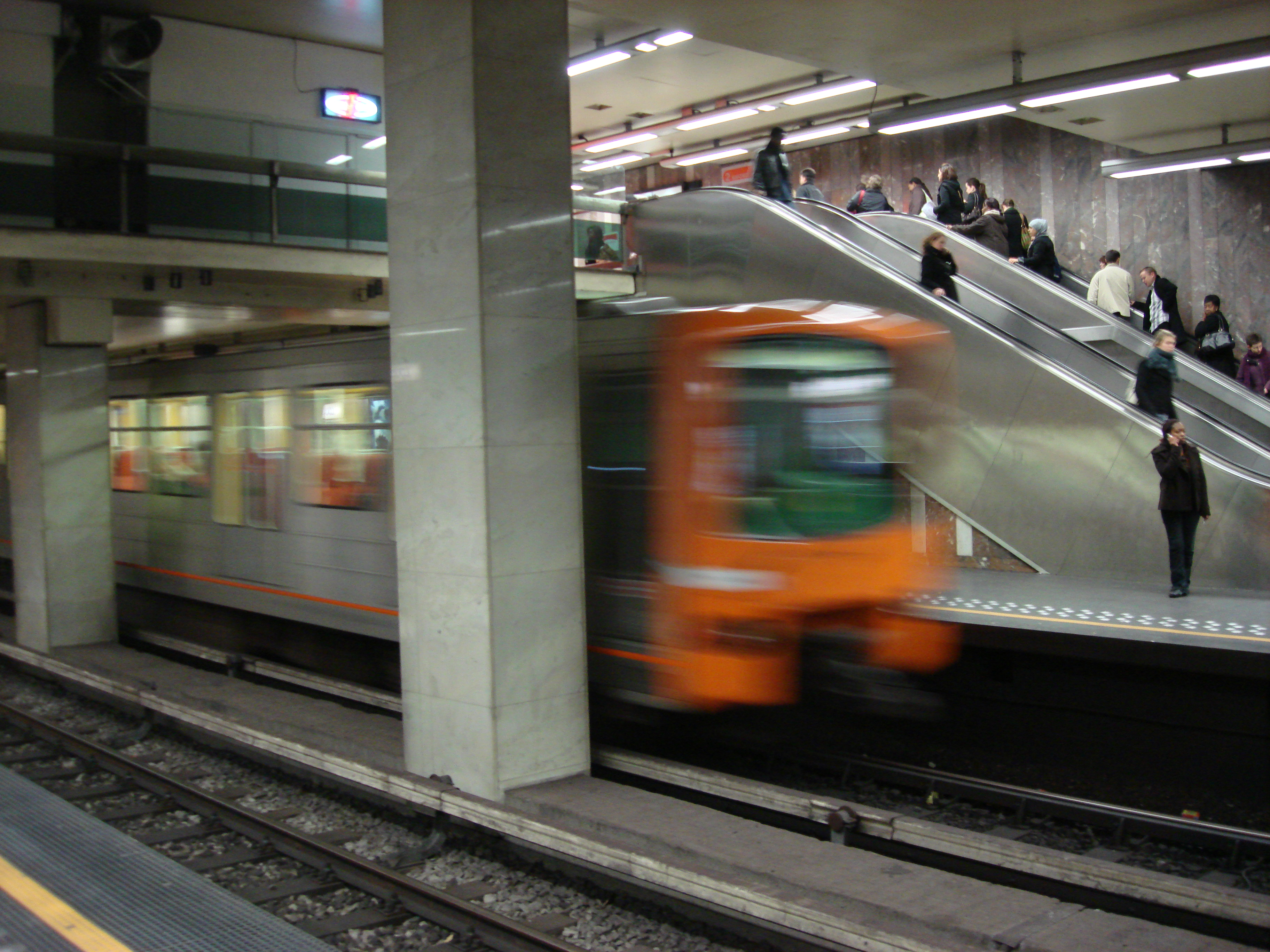 Metro train leaving Louise/Louiza Metro station on the Brussels STIB Metro